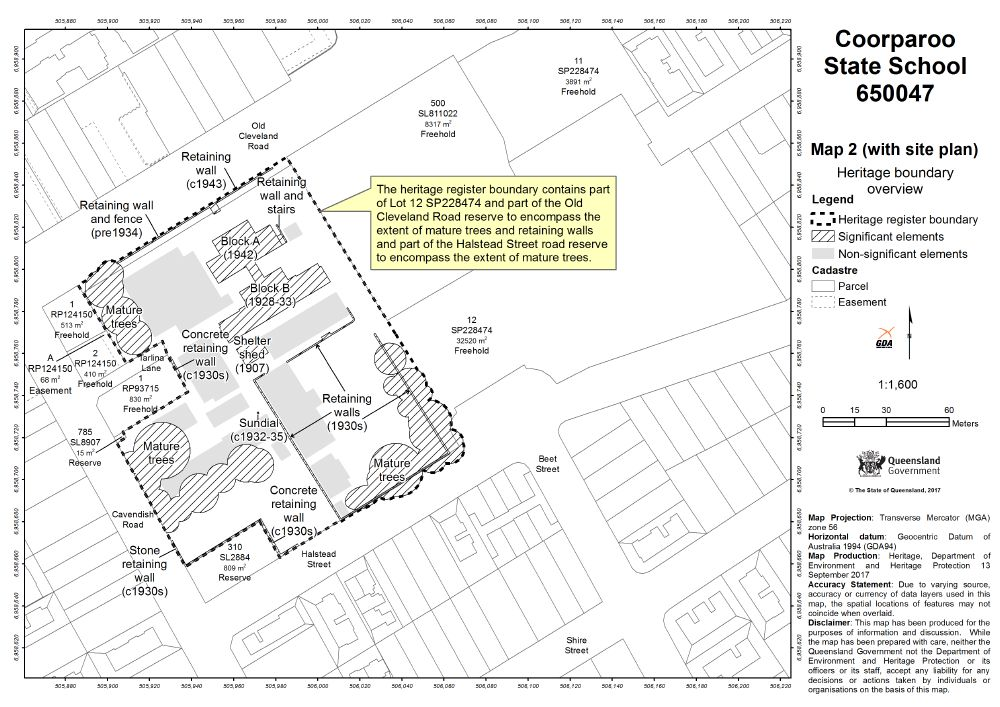 650047 - Coorparoo State School - map 2 (2017)